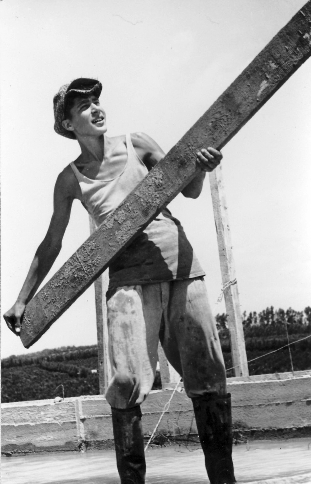 Gan-Shmuel - working in the building 1937, Econimy of Israel